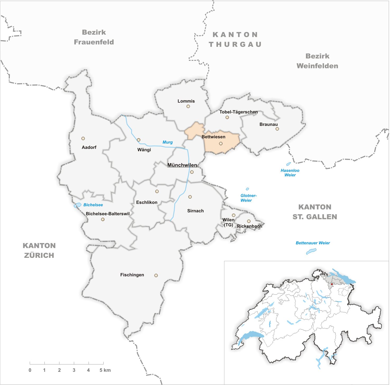 Municipality Bettwiesen